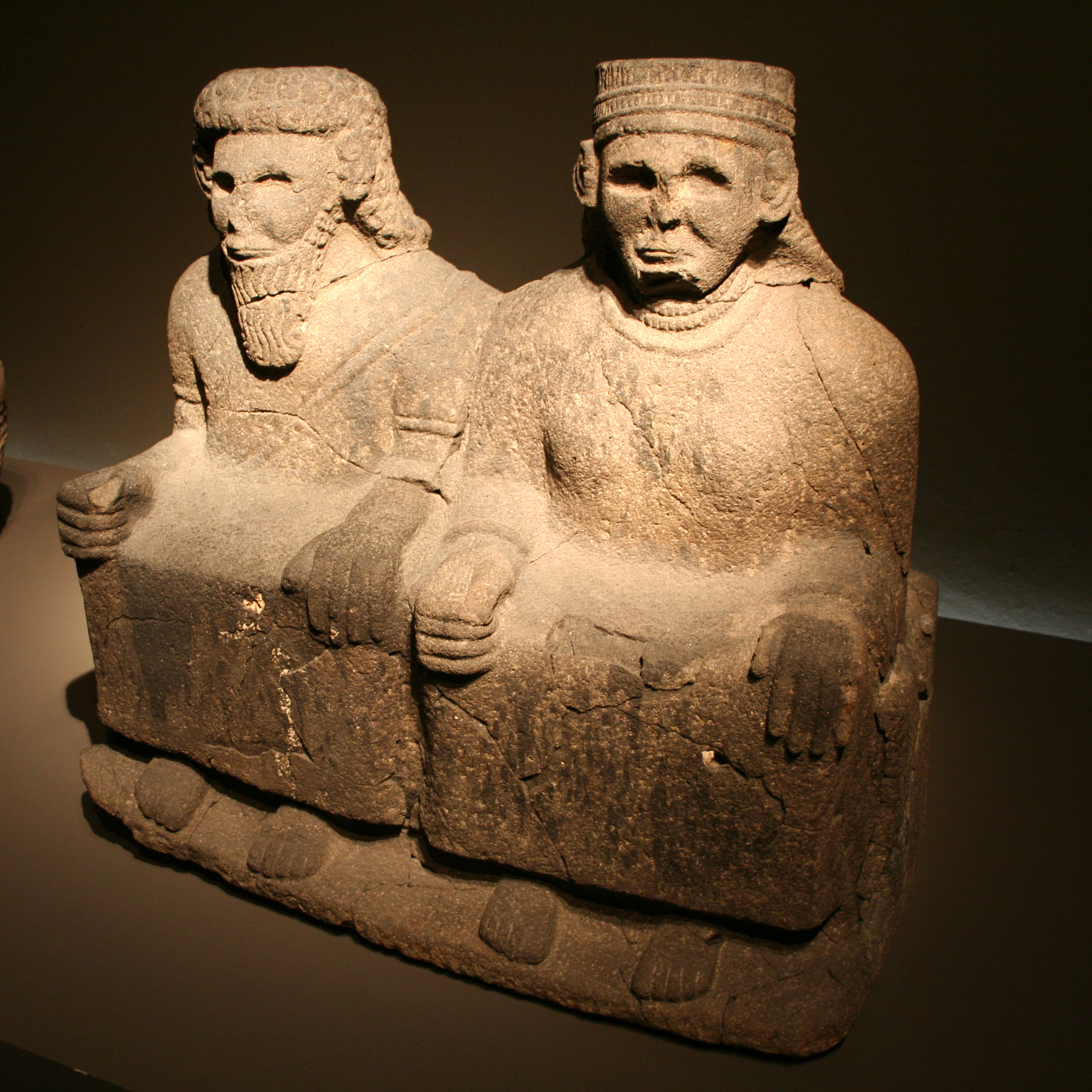 Exhibition "Die geretteten Götter aus dem Palast vom Tell Halaf" (The rescued gods from the palace of Tell Halaf), Pergamon Museum, Berlin